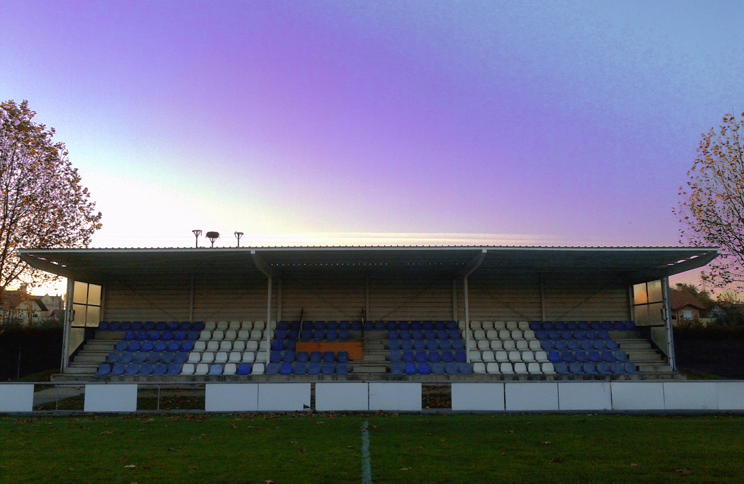 Small stand at the Betoño training ground in Vitoria-Gasteiz, at one point owned by Deportivo Alavés and named El Glorioso (the club nickname). Also previously home to CD Vitoria